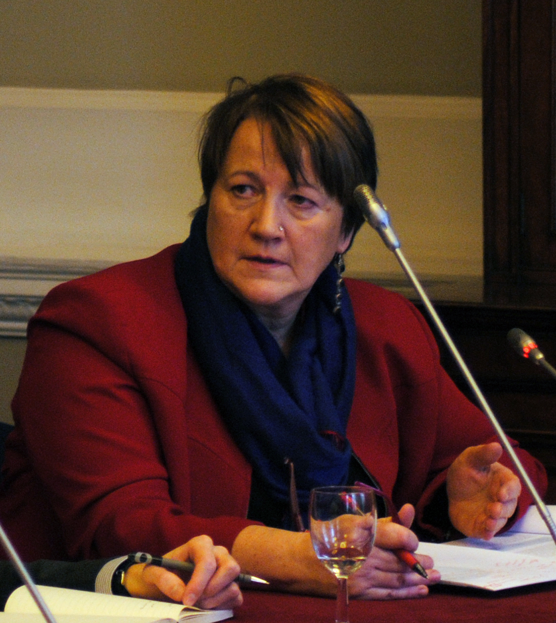 Dr Patricia Lewis, Research Director, International Security, Chatham House at the event Cyber Security and Global Interdependence: What is Critical? 28 February 2013